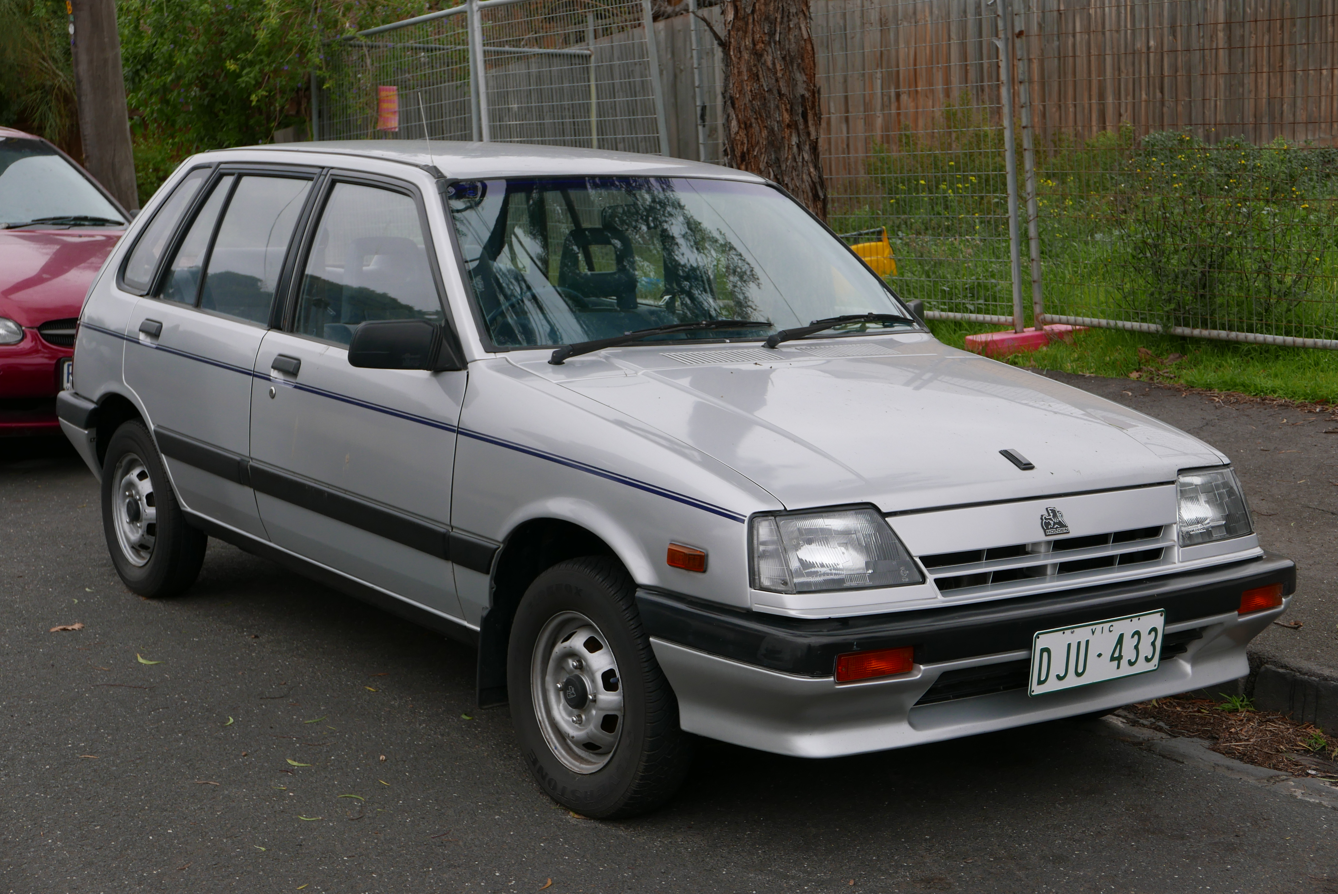 1988 Holden Barina (ML) 5-door hatchback. Photographed in Fitzroy North, Victoria, Australia. Vehicle registration enquiry results Jurisdiction Victoria Registration DJU433 Chassis code Not available Engine code G13A510063 Compliance date Not available Year of manufacture 1988